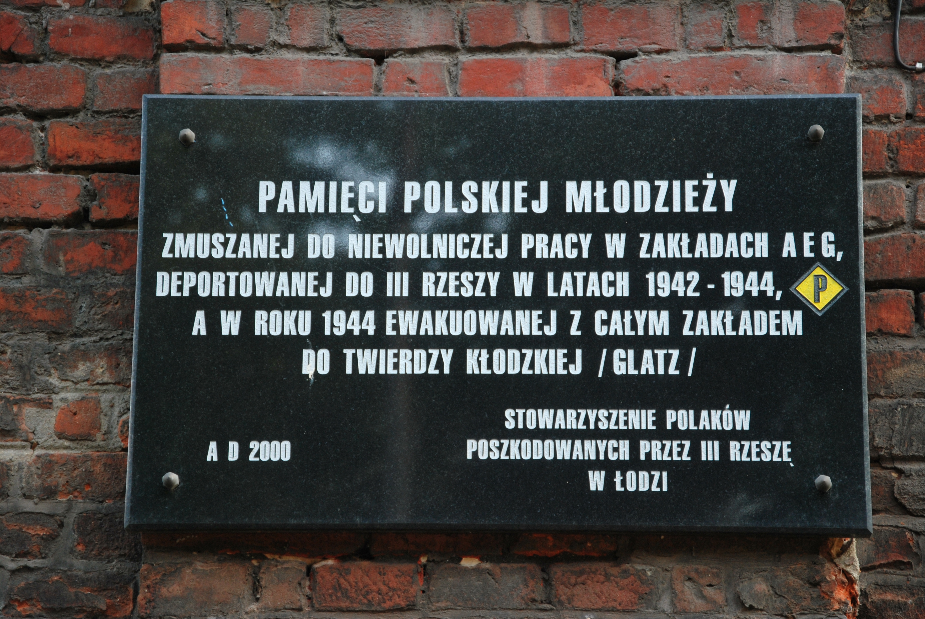 Plaque polish youth unfree labour AEG during IInd World War, Łódź Plac Zwycięstwa